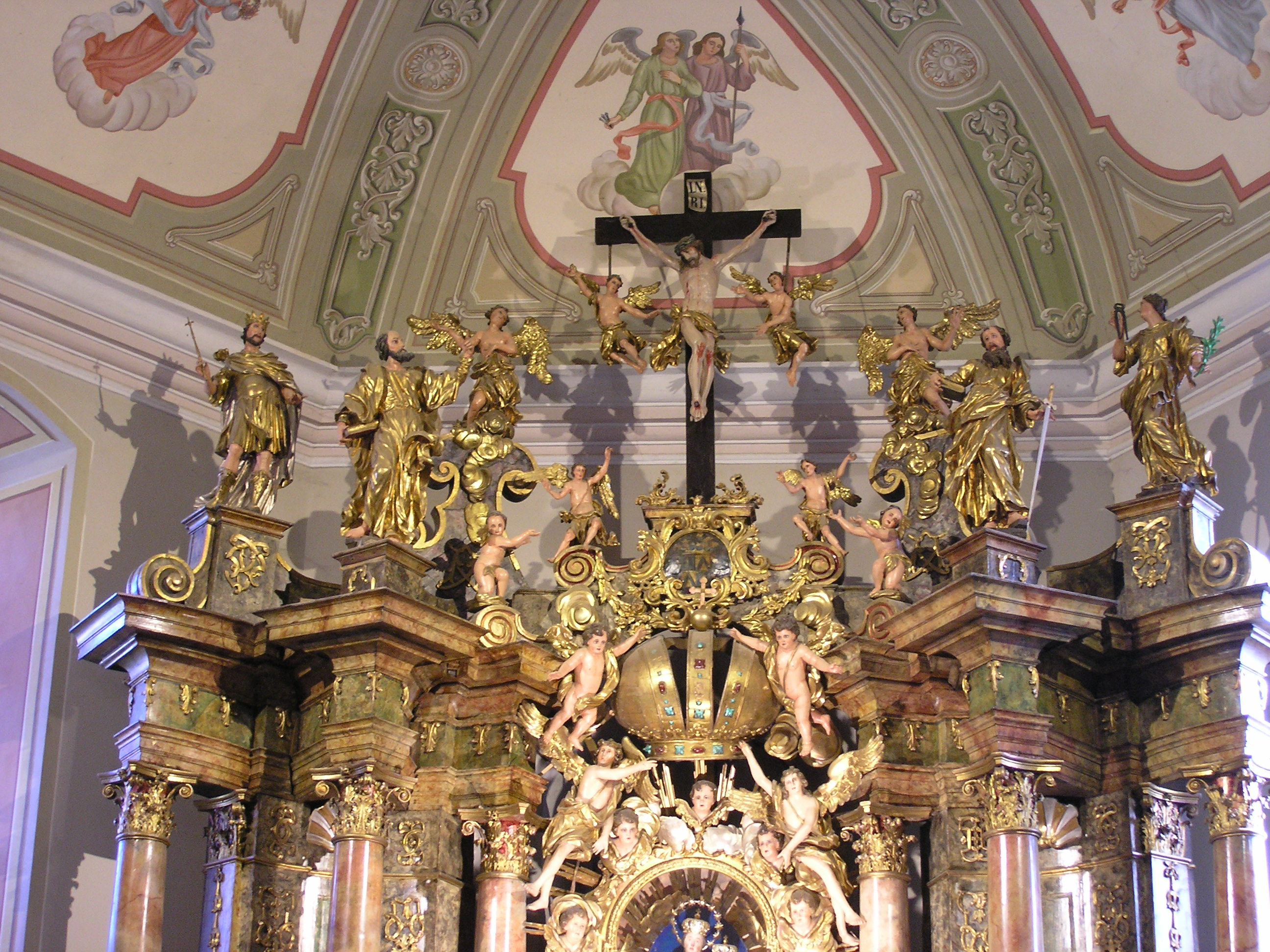 High Altar in Franciscan church in Osijek, (detail)